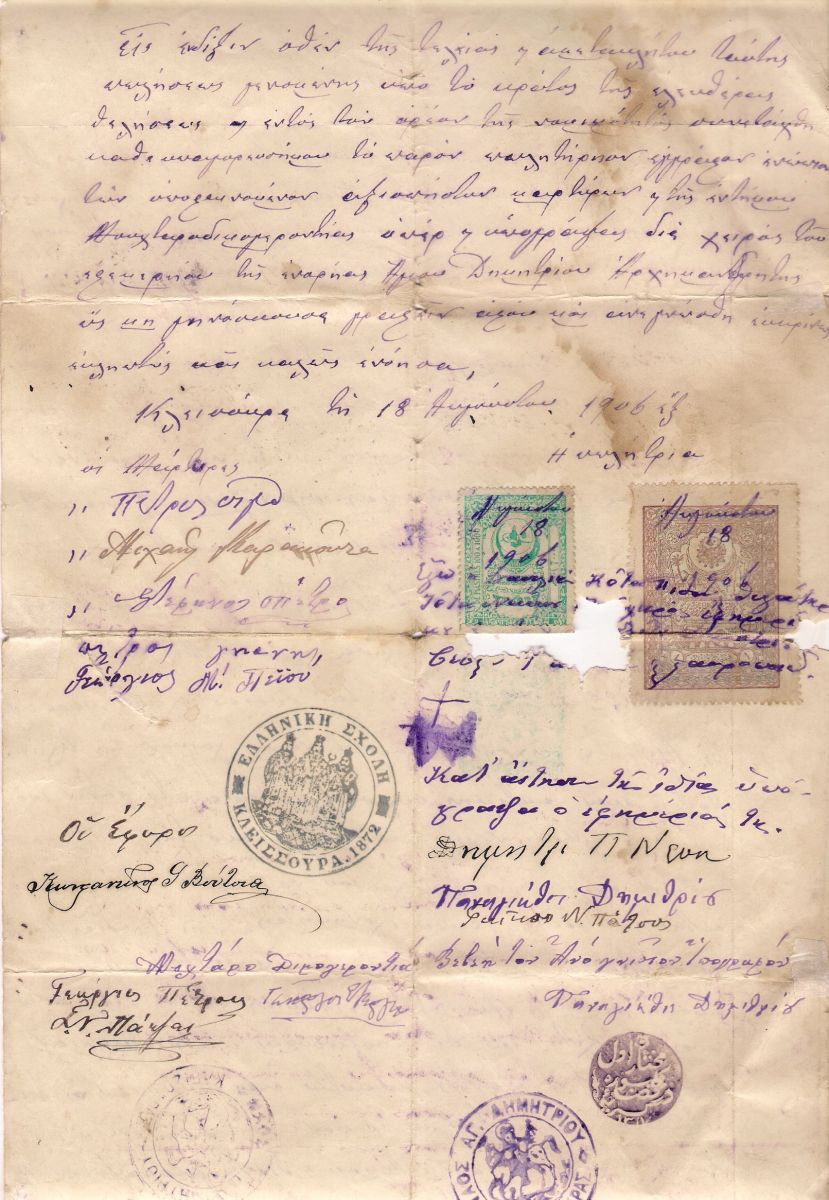 Document of the Greek Municipality of Klisura 1906